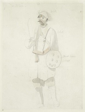 Sketch of 'A Nair'. Pencil and watercolor on paper